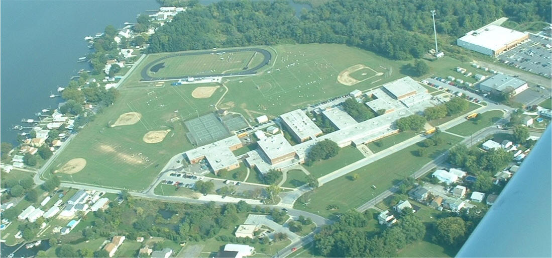 Sparrows Point High School, taken at FL050, Cessna single engine aircraft.